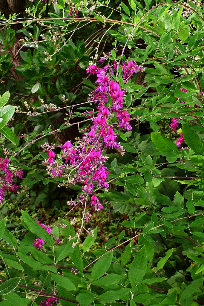 A very useful autumn flowering plant, for some reason usually classified as a shrub when in fact it dies down completely in winter. Photos rarely do it justice. The flowers are a lovely fresh rosy mauve and contrast nicely with the soft green leaves, silvery underneath. The growth habit troubles some gardeners because it trails over sideways as the stems lengthen and the flowers develop and some people find this too untidy to tolerate and try to strap it to a stick or frame. In fact, for those of us of a less neat-and-tidy disposition it is an ideal plant for decorating the gaps and old foliage of other plants that finished earlier in the season. Fabaceae, Eastern Asia